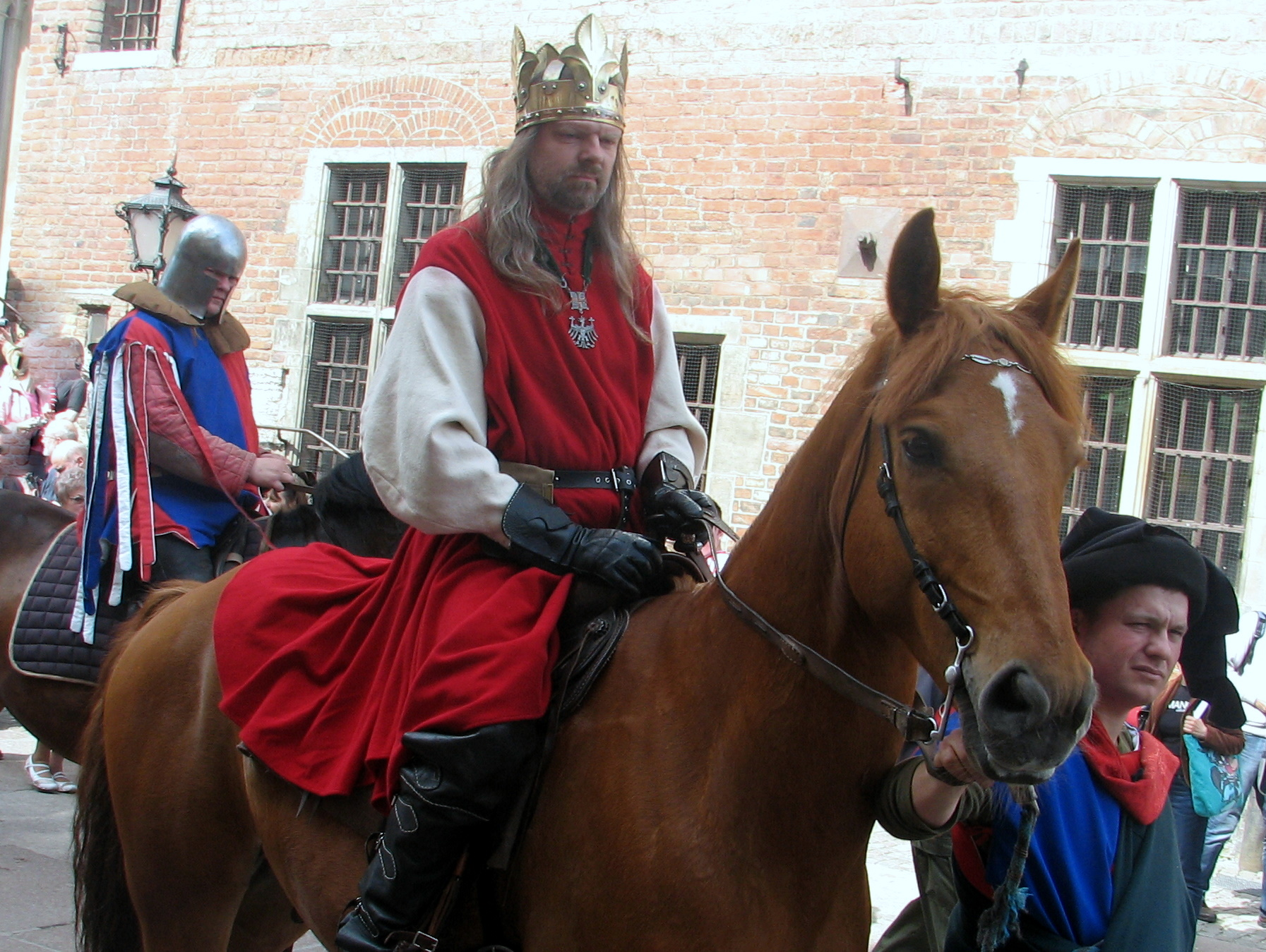 Reenactment of the entry of Casimir IV Jagiellon to Gdańsk during III World Gdańsk Reunion.